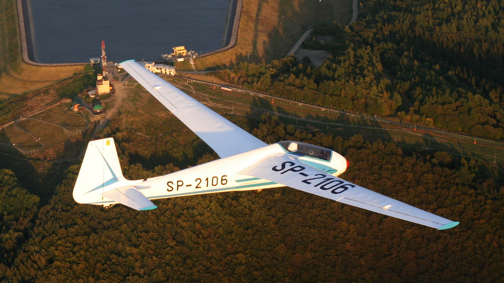 Glider SZD-22 Mucha Standard over Mountain Żar